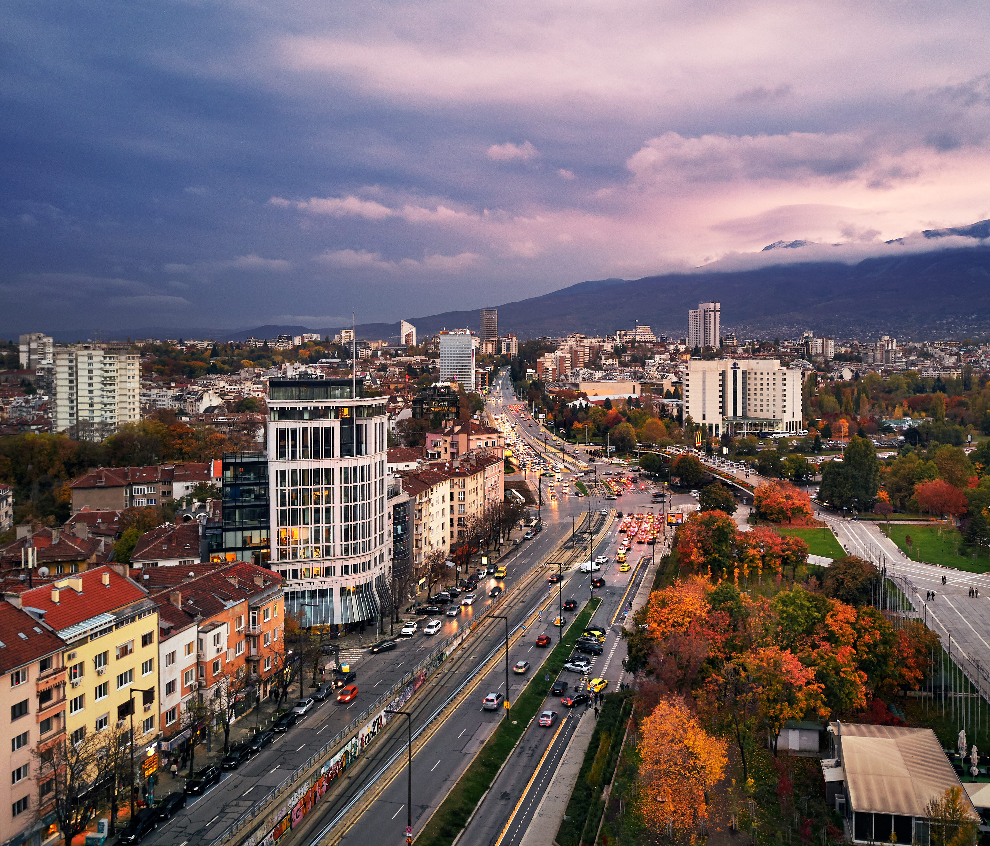 Sofia